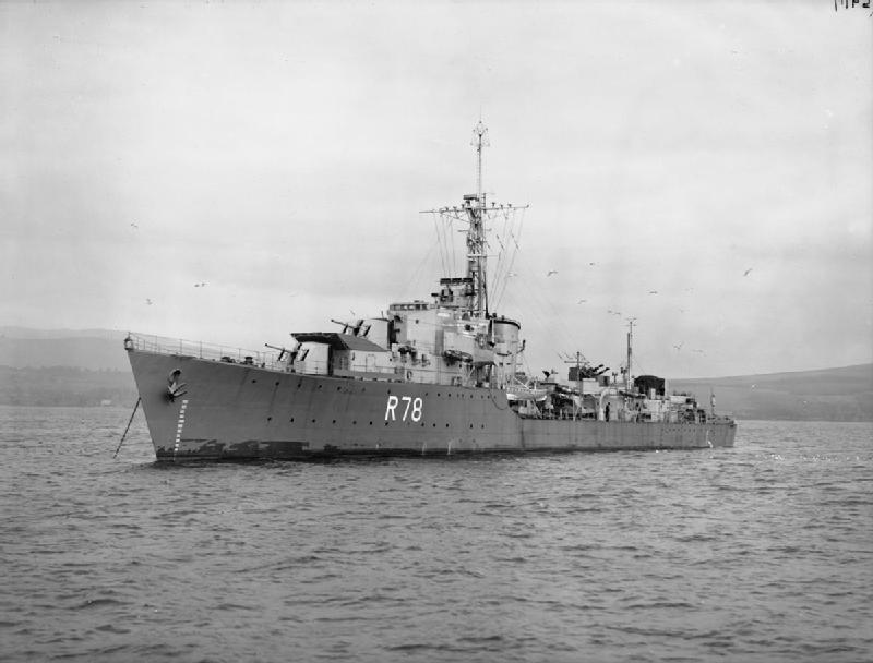 British destroyer HMS WESSEX at anchor.